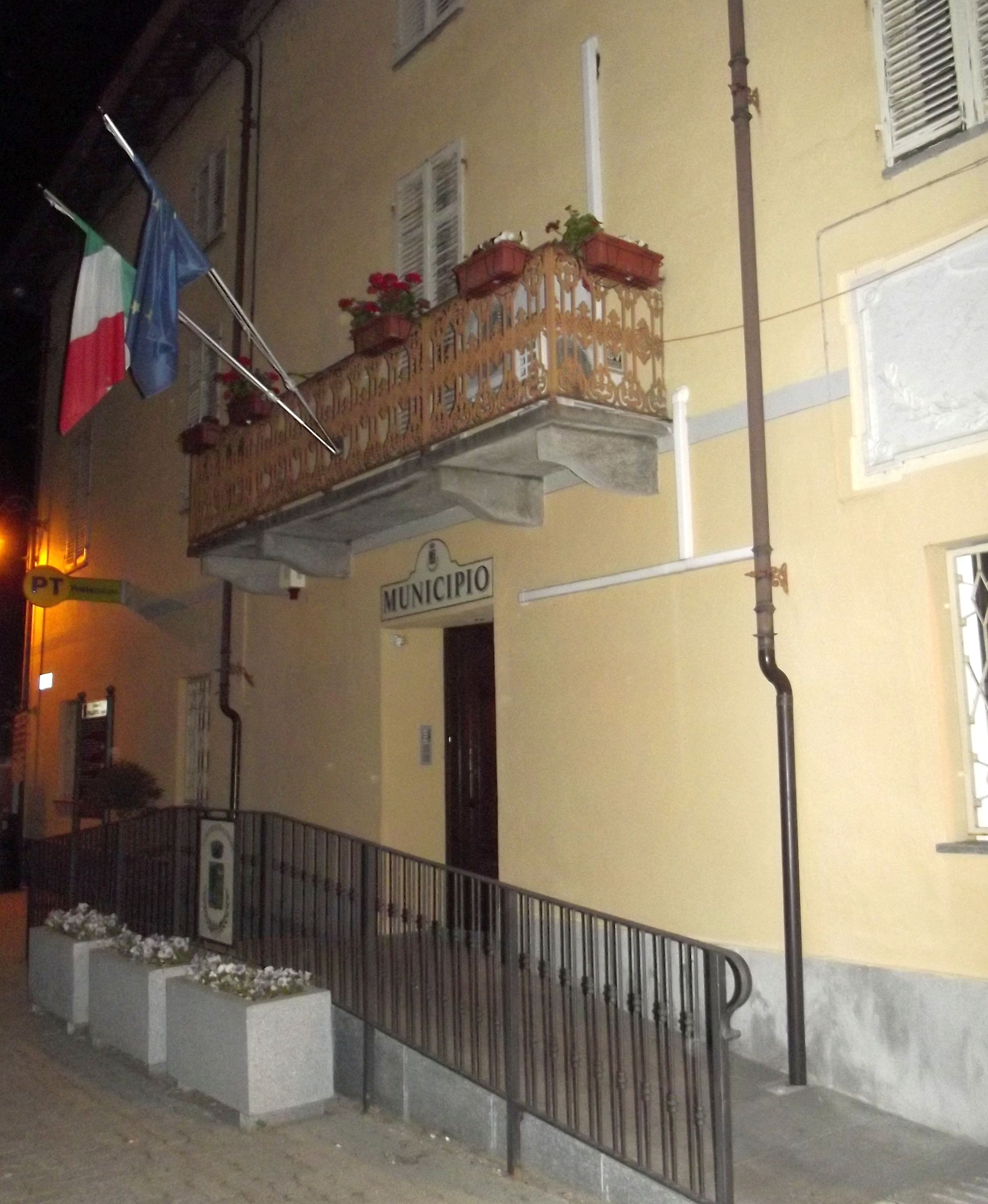 Pralormo (TO, Italy): town hall